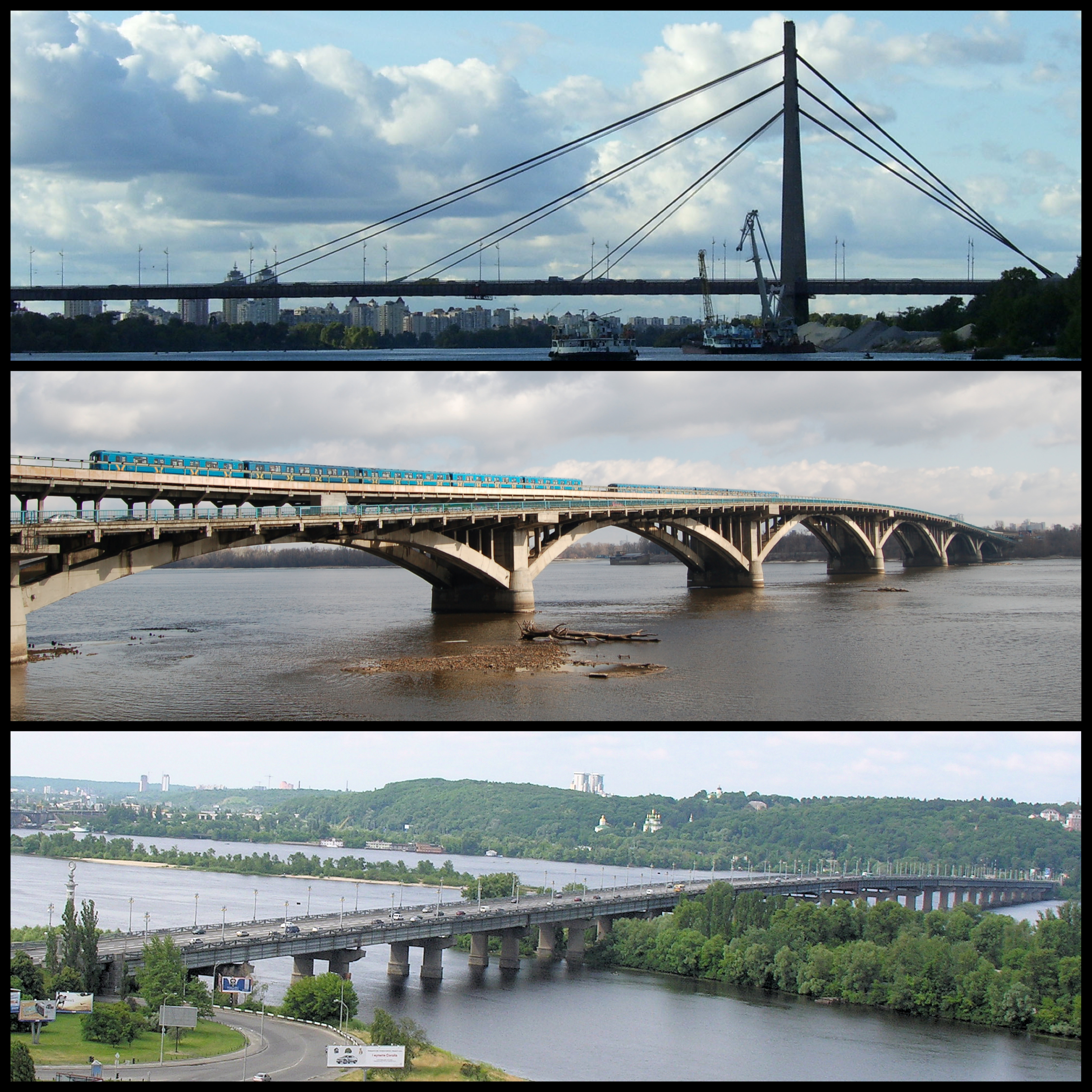 Collage of the Bridges in Kiev. Top to bottom: Moskovskyi Bridge; Kiev Metro Bridge; Paton Bridge.